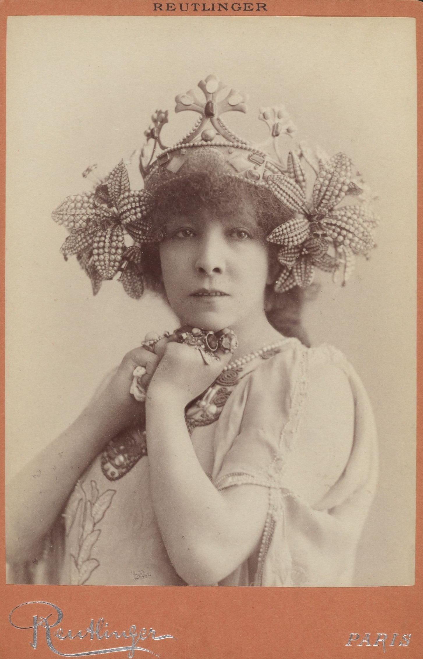 Cabinet card image of actress Sarah Bernhardt (1844-1923) as La Princesse Lointaine. Reutinger, Paris. Theatrical Cabinet Photographs of Women (TCS 2). Harvard Theatre Collection, Houghton Library, Harvard University.